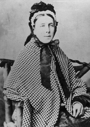 Learmonth White Dalrymple (c.1827–26 August 1906) was a New Zealand educationalist who campaigned for girls' secondary education in Dunedin and for women to be admitted to the University of Otago. guess pic at 1880